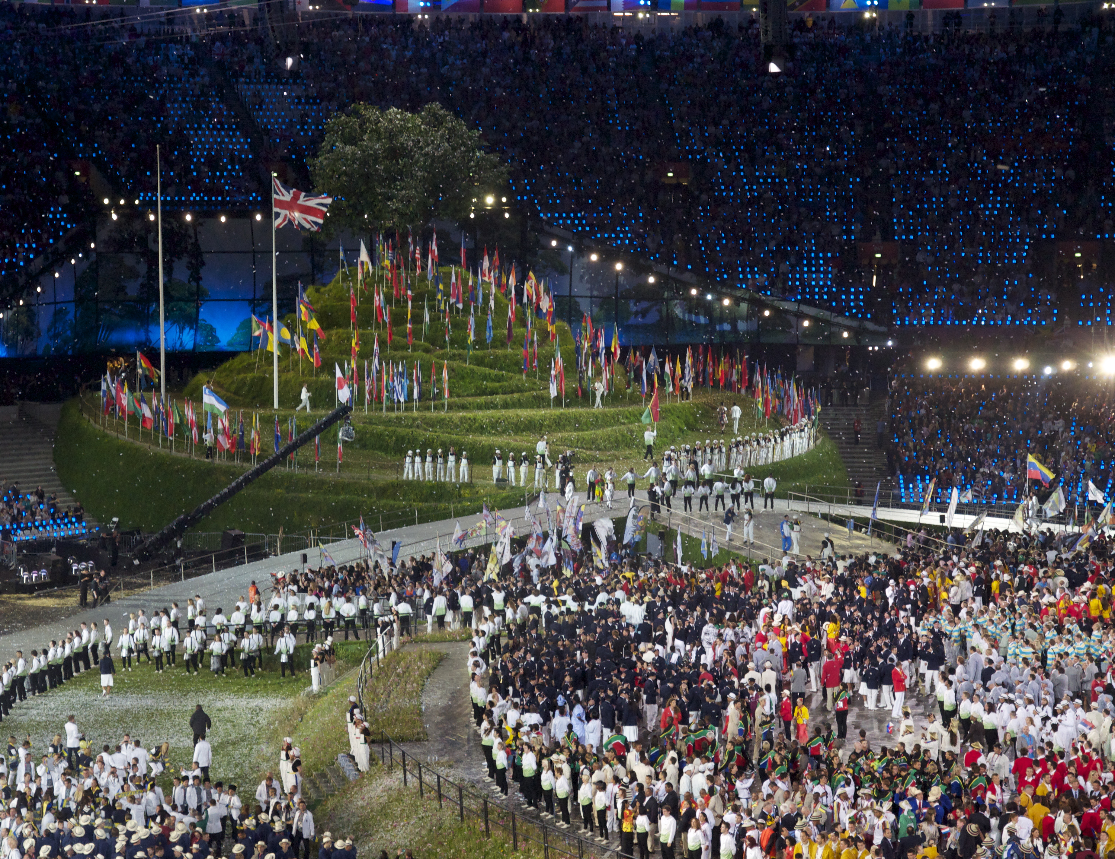 2012 Summer Olympics opening ceremony